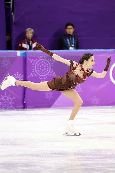 Evgenia Medvedeva at the 2018 Winter Olympic Games - Free program